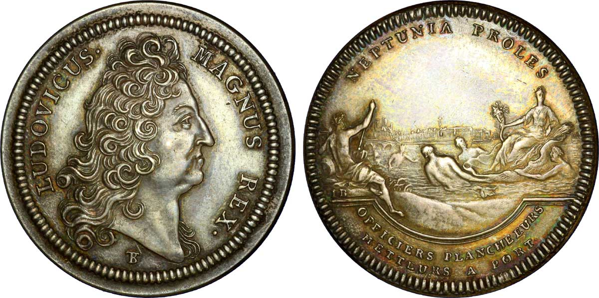 Ces ouvriers, dont la fonction était d’aider les navires à accoster, devaient avoir une corporation trop pauvre pour distribuer de nombreux jetons. Ce jeton est une ré-édition de la Monnaie de Paris, probablement des années 1970